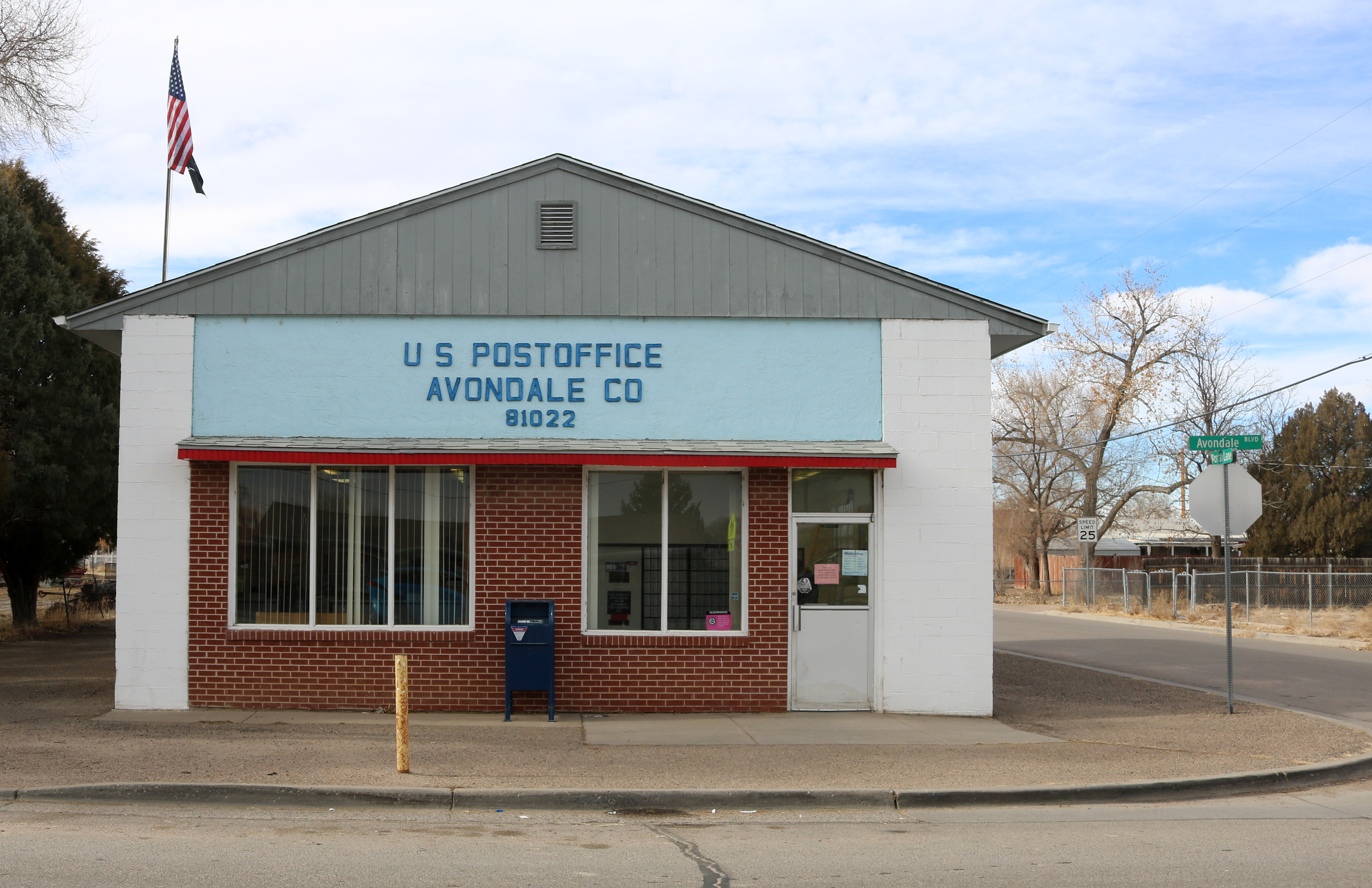 The Avondale, Colorado post office, located at 230 Avondale Boulevard, Avondale, Colorado 81022.